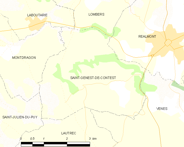 Map of French municipality Saint-Genest-de-Contest